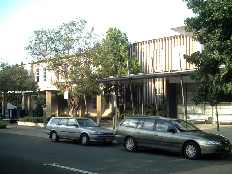 The Council Chambers of the City of Holroyd, Sydney, NSW Australia